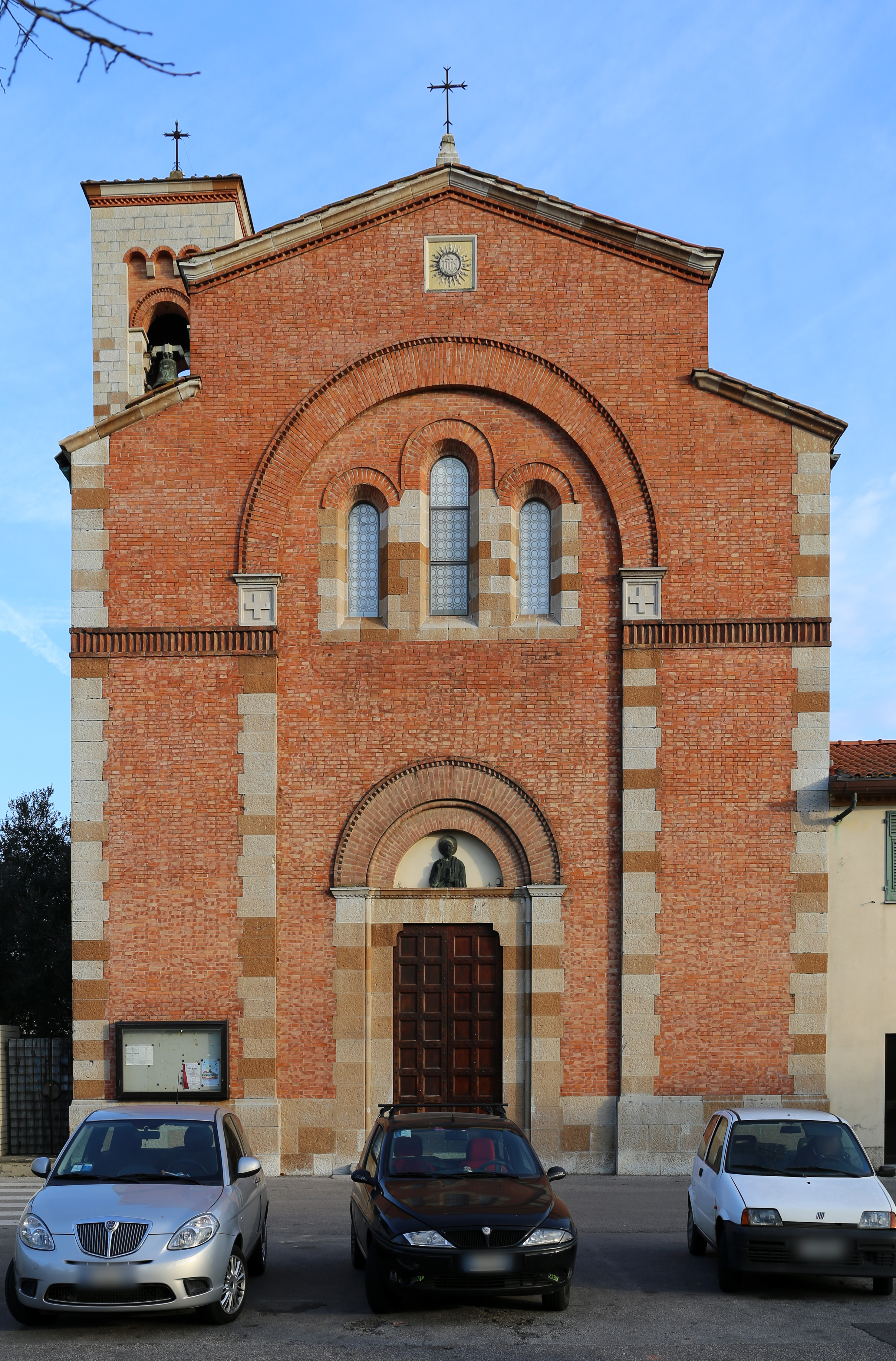 Mezzana (Prato)